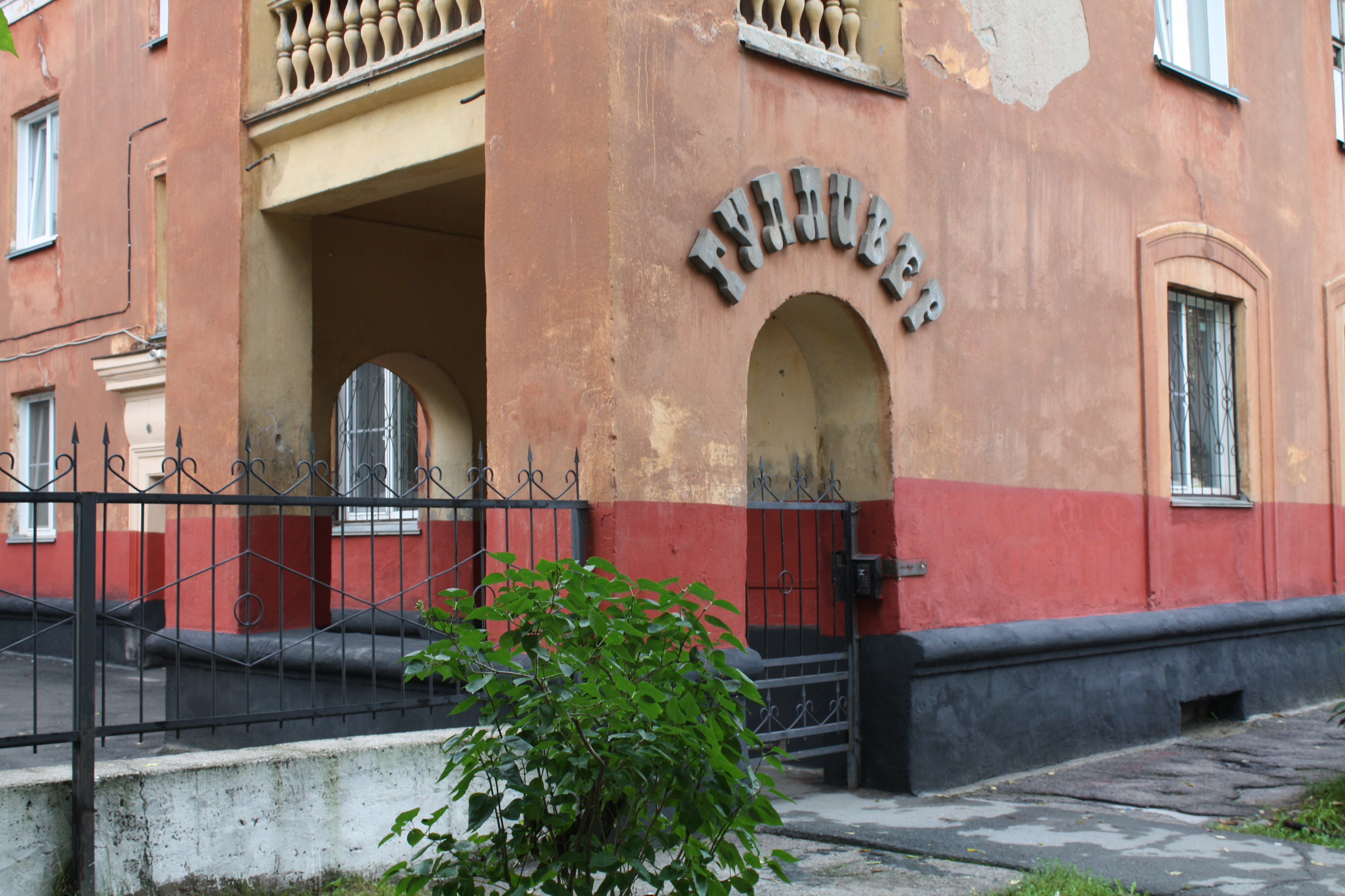 Gulliver Yard, Kalininsky City District, Novosibirsk.